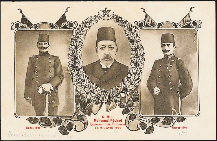 Postcard of Mehmed V flanked by Niyazi Bey (left) and Enver Bey (right) - April 1909